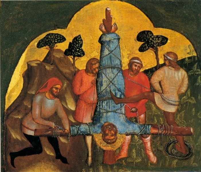 _Lorenzo_Veneziano_Crucifixion_of_Peter._1370,_Staatliche_Museen,_Berlin.